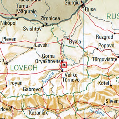 Bulgaria 1994 CIA map, city: Gorna Orjachowiza, Location in Bulgaria; part of the map Bulgaria_1994_CIA_map.jpg This image is in the public domain because it contains materials that originally came from the United States Central Intelligence Agency's World Factbook.